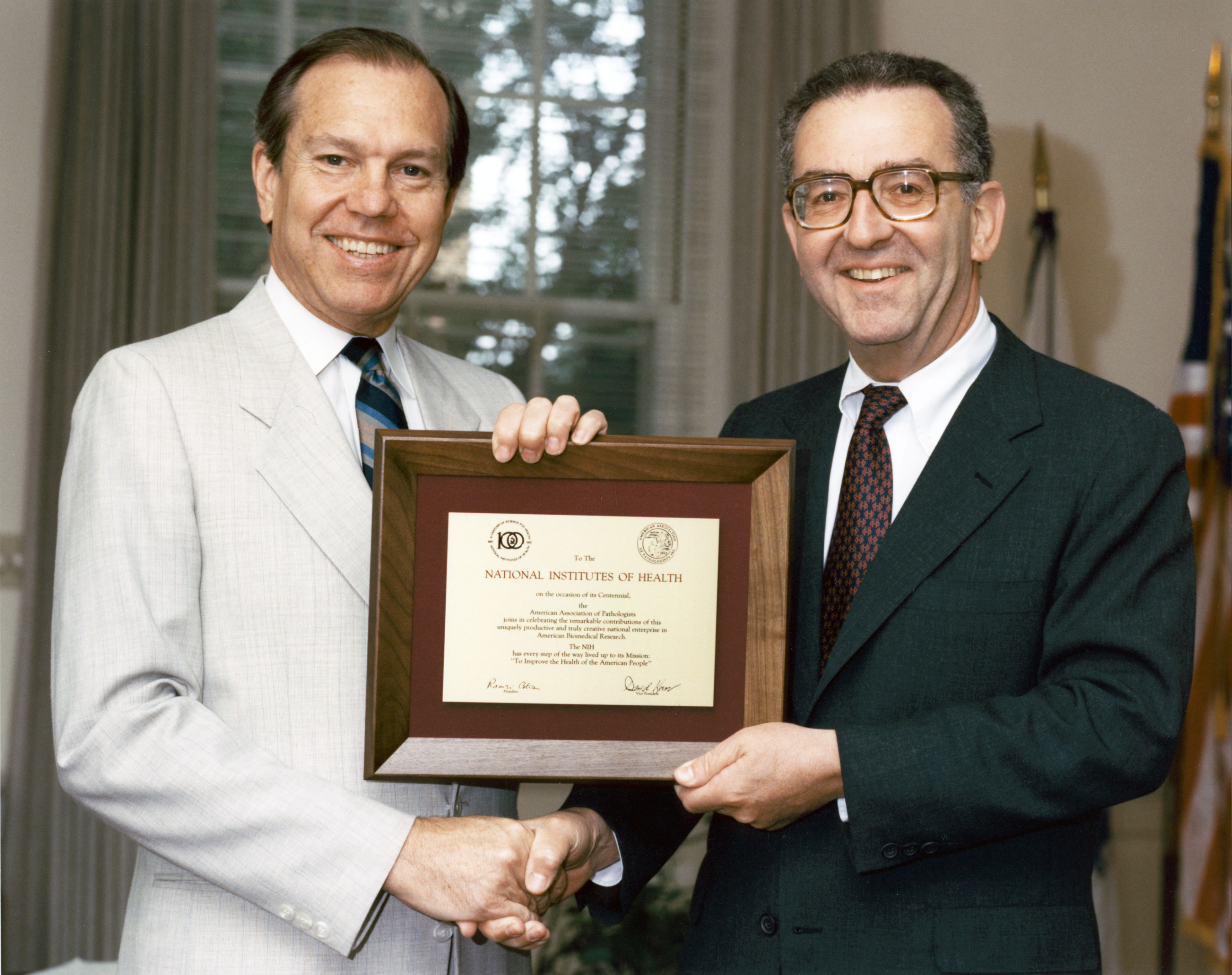 Title Wyngaarden, James and Korn, David Description Dr. James B. Wyngaarden, former Director of the National Institutes of Health and Dr. David Korn, former Chairman of the National Cancer Advisory Board, National Cancer Institute. Topics/Categories Historical, People National Cancer Institute, People Type Color, Photo Source National Cancer Institute